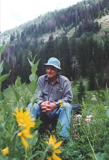 Garniss Curtis in the Wyoming backcountry, 2001